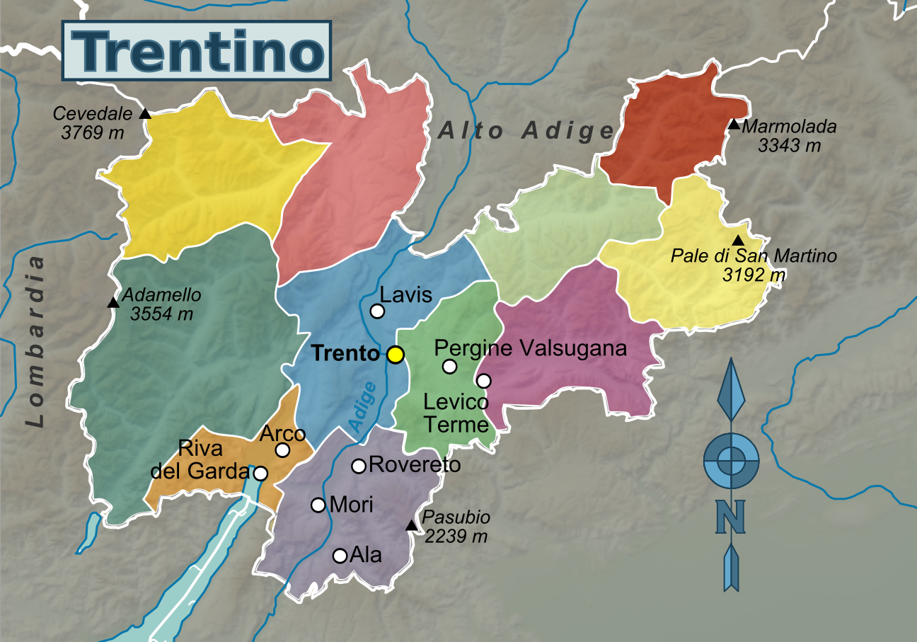 Multilingual SVG map of Trentino-Alto Adige travel regions used in Wikivoyage, including the travel regions, major cities and transportation routes. Red roads denote an Autostrada, brown roads are all other types of roads. Map projection is Mercator. Approximate scale is 1:1,600,000.